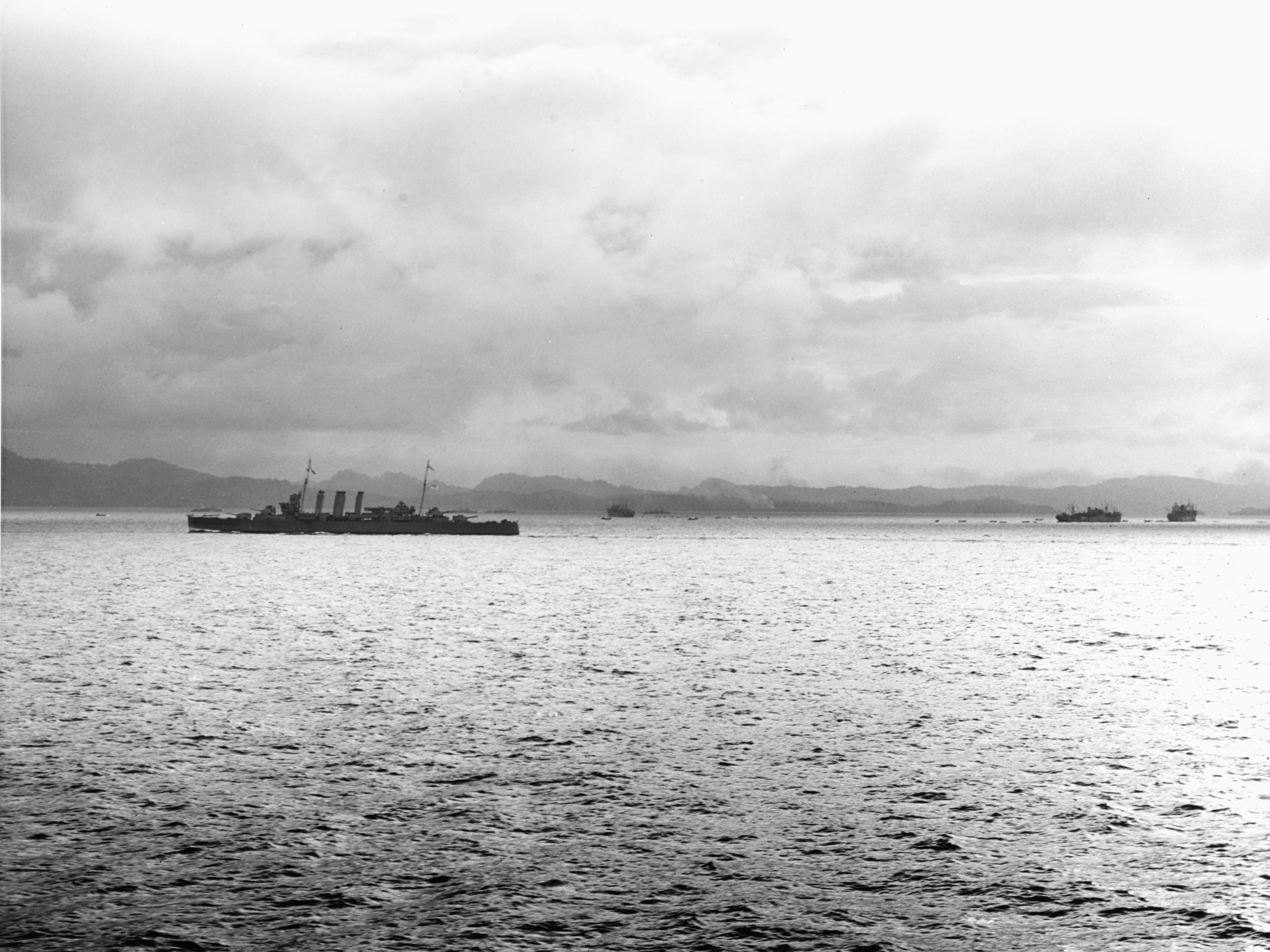 The Royal Australian Navy heavy cruiser HMAS Canberra (D33) underway off Tulagi, during the landings there, 7-8 August 1942. Three transports are among the ships visible in the distance, with Tulagi and Florida Islands beyond.